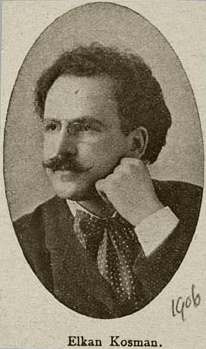 Elkan Alexander Kosman (1872-1950), Dutch violinist, presumably in 1906.